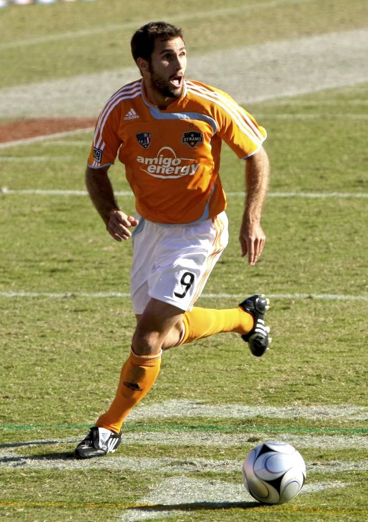 Brian Mullan of Houston Dynamo against New York Red Bulls in the 2008 MLS Playoffs.